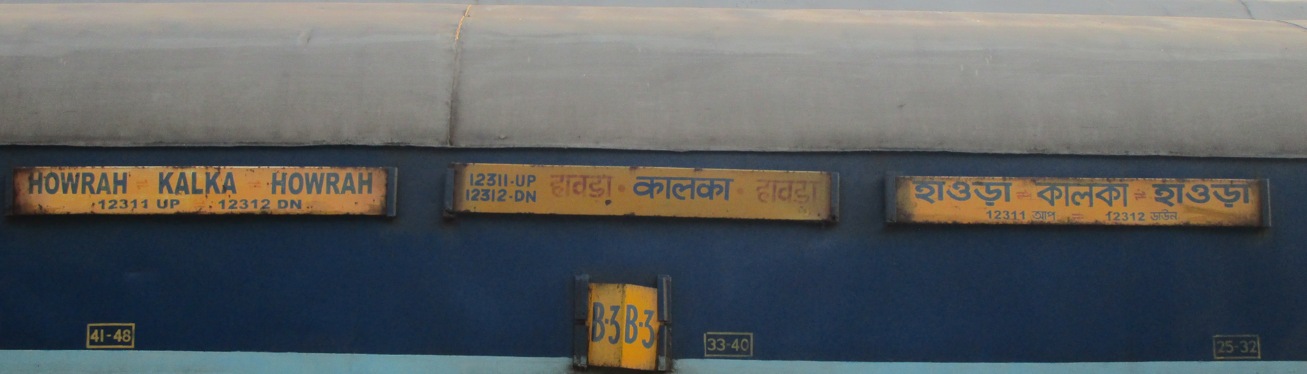 Kalka Mail